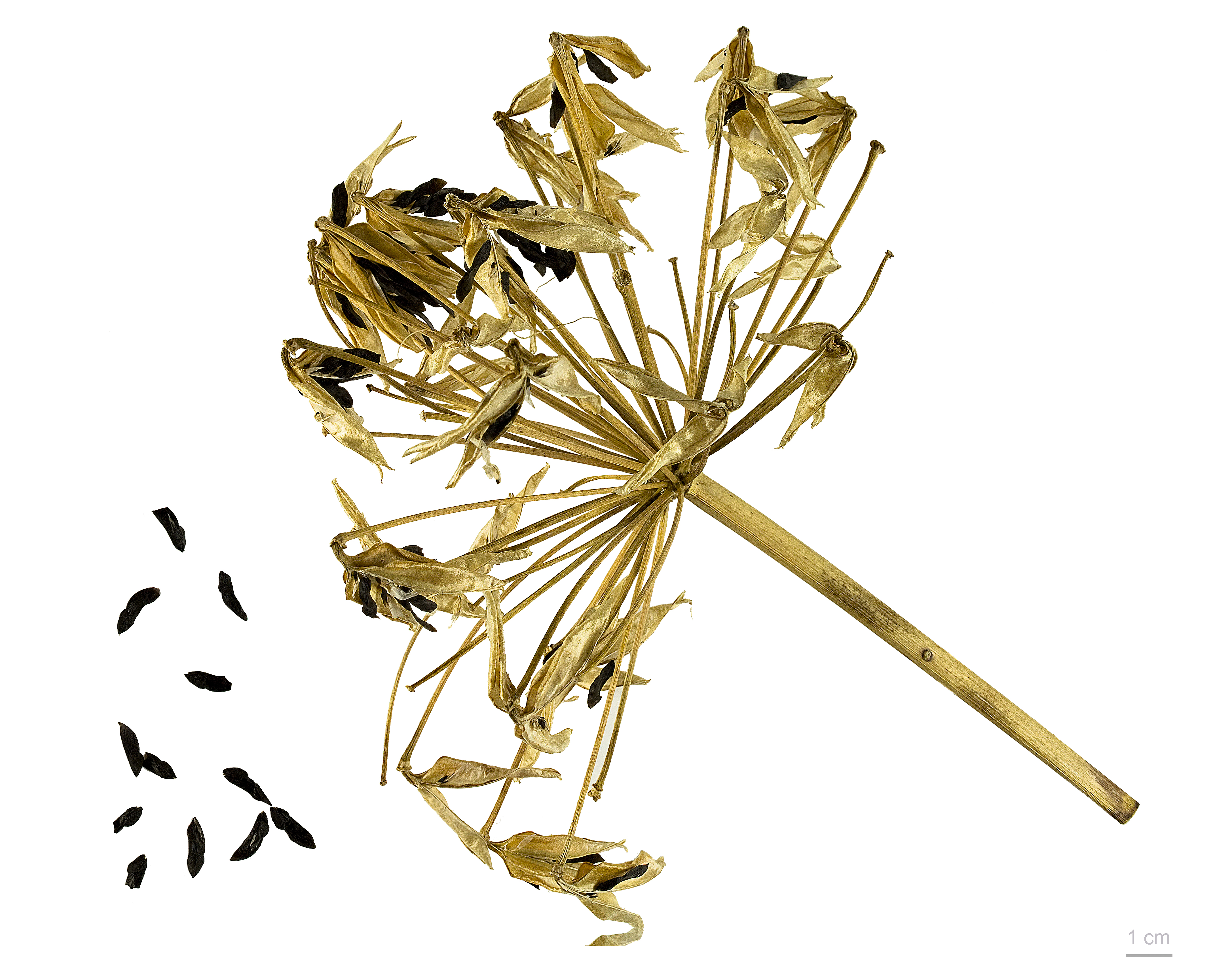 Common Agapanthus, Blue Lily , fruits and seeds